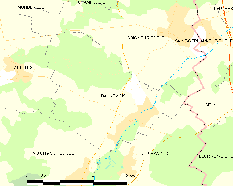 Map of French municipality Dannemois